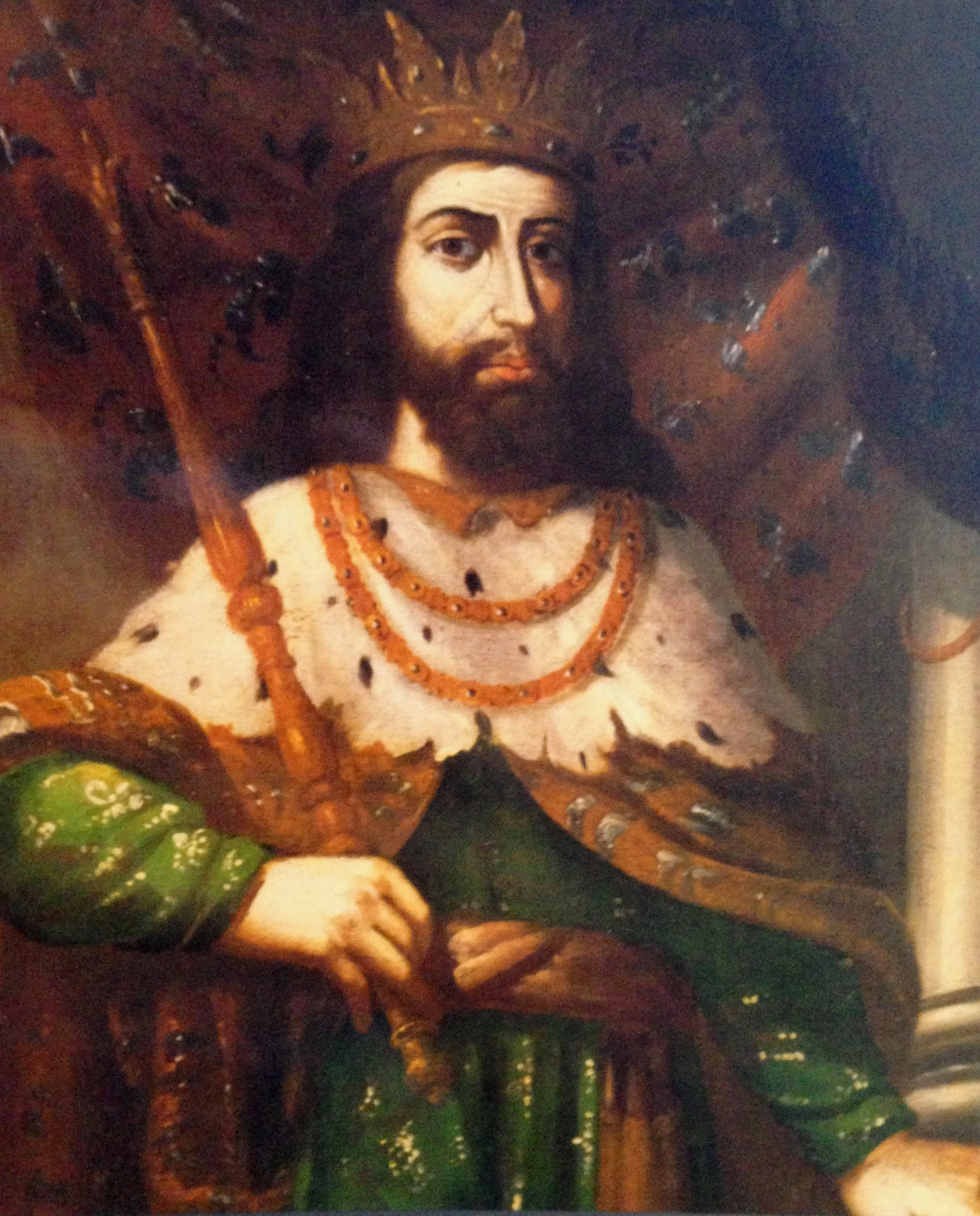 Portrait of King Fernando I by Henrique Ferreira (1720). Located at the Casa Pia Biblioteca Pina Manique, originally part of the Monastery of Belem royal portraits collection.